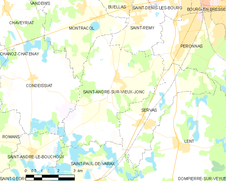 Map of French commune: Saint-André-sur-Vieux-Jonc Map commune FR insee code 01336.png